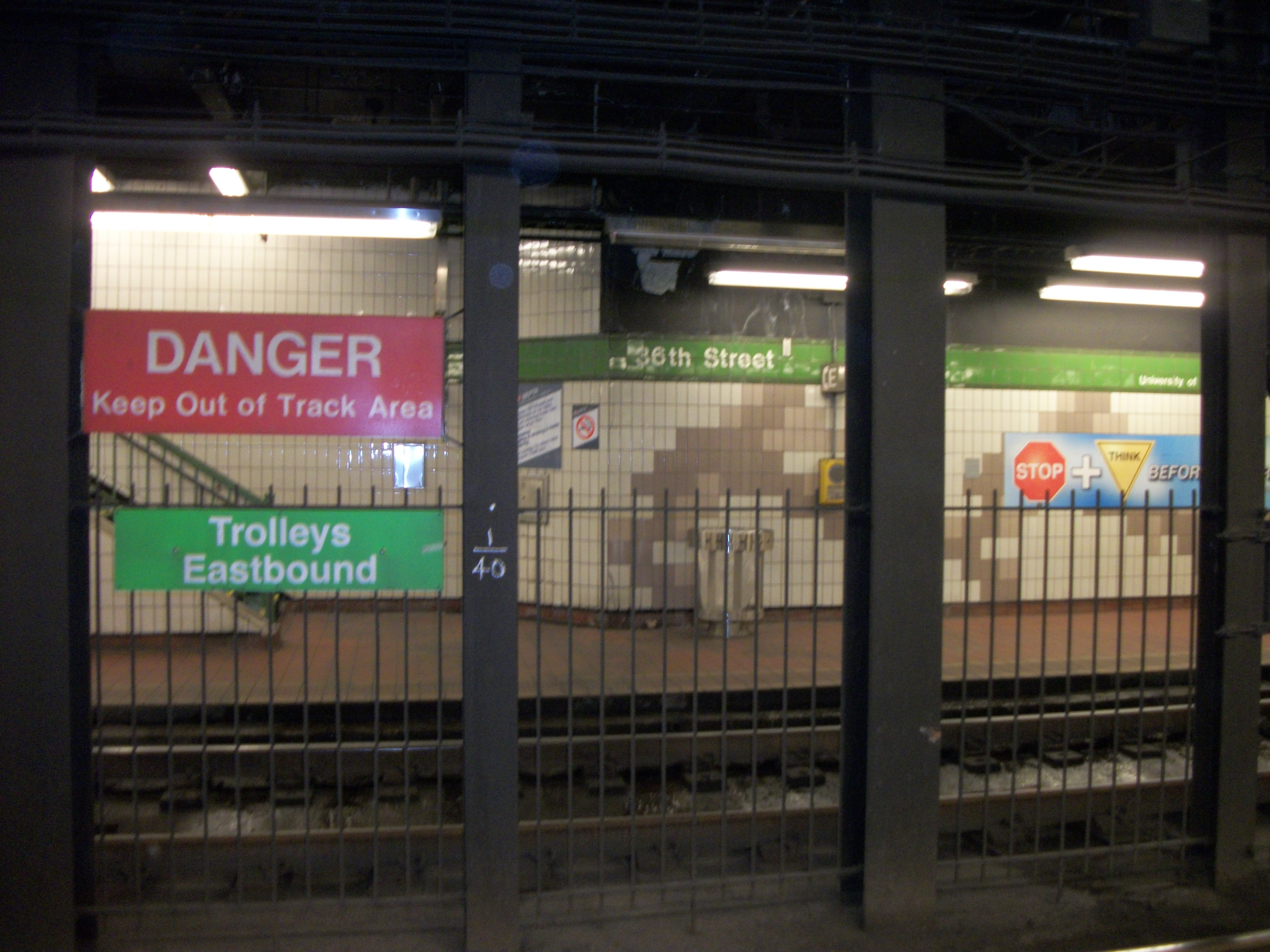 Looking across the westbound platforms from the eastbound platforms of the 36th Street-Samson Commons Subway-Surface Trolley Lines in Philadelphia, Pennsylvania. For those who haven't been here, the platforms are quite low, so when you see those signs saying "DANGER: Keep Out of Track Area," you'd better do what they say.